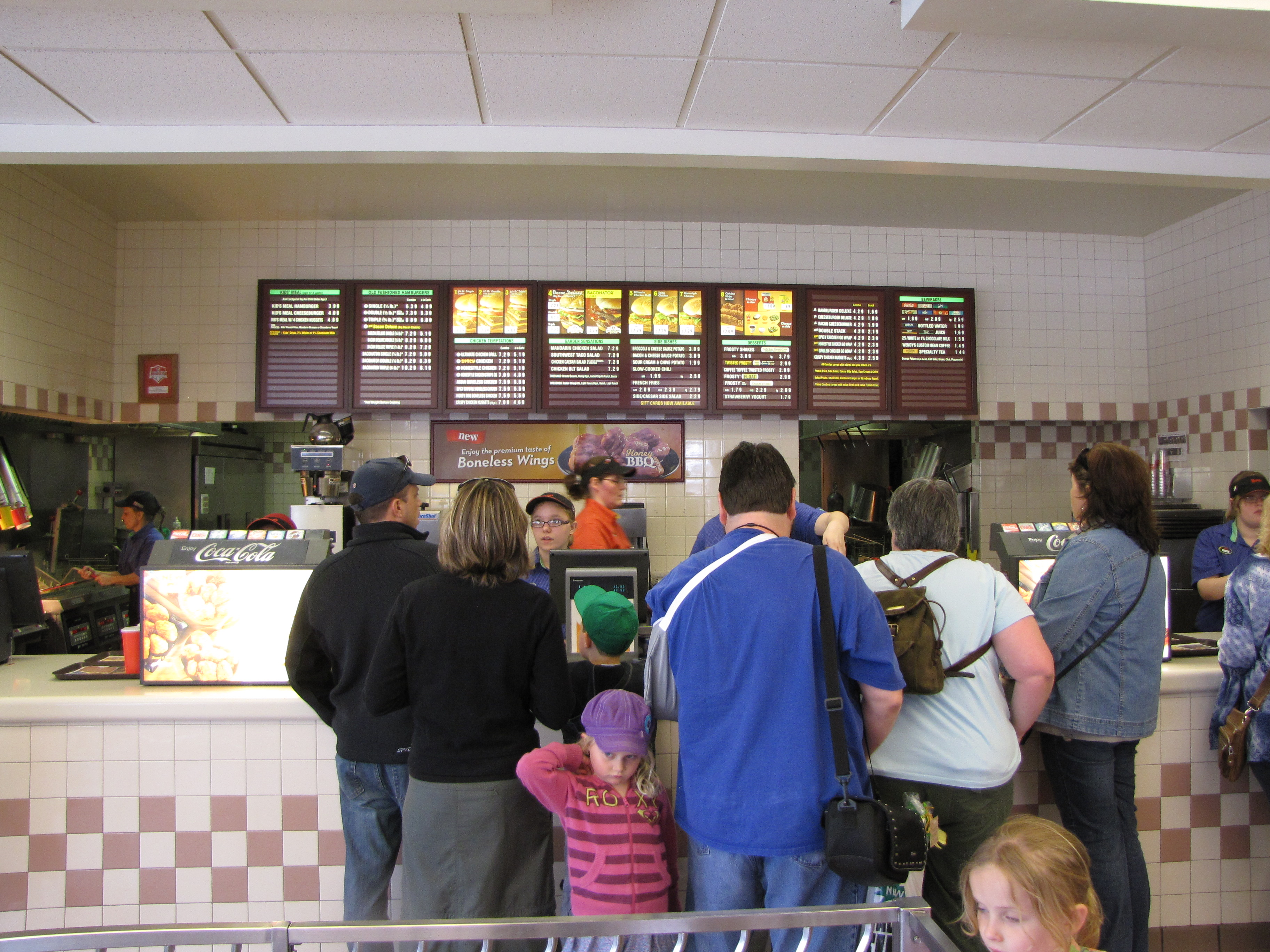 The front counter at the Wendy's Restaurant on Clifton Hill in Niagara Falls